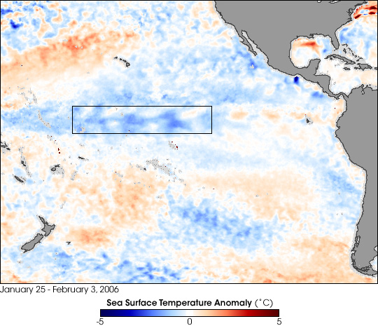 This image compares the water temperatures observed between January 25 and February 1, 2006, to long-term average conditions for that time period. The recent data were collected by the Advanced Microwave Scanning Radiometer for EOS (AMSR-E). Red shows where sea surface temperatures are warmer than normal and blue where they are colder than normal. A large swath of the Pacific near the Equator is cooler than normal. In other words, a La Niña condition is in effect.